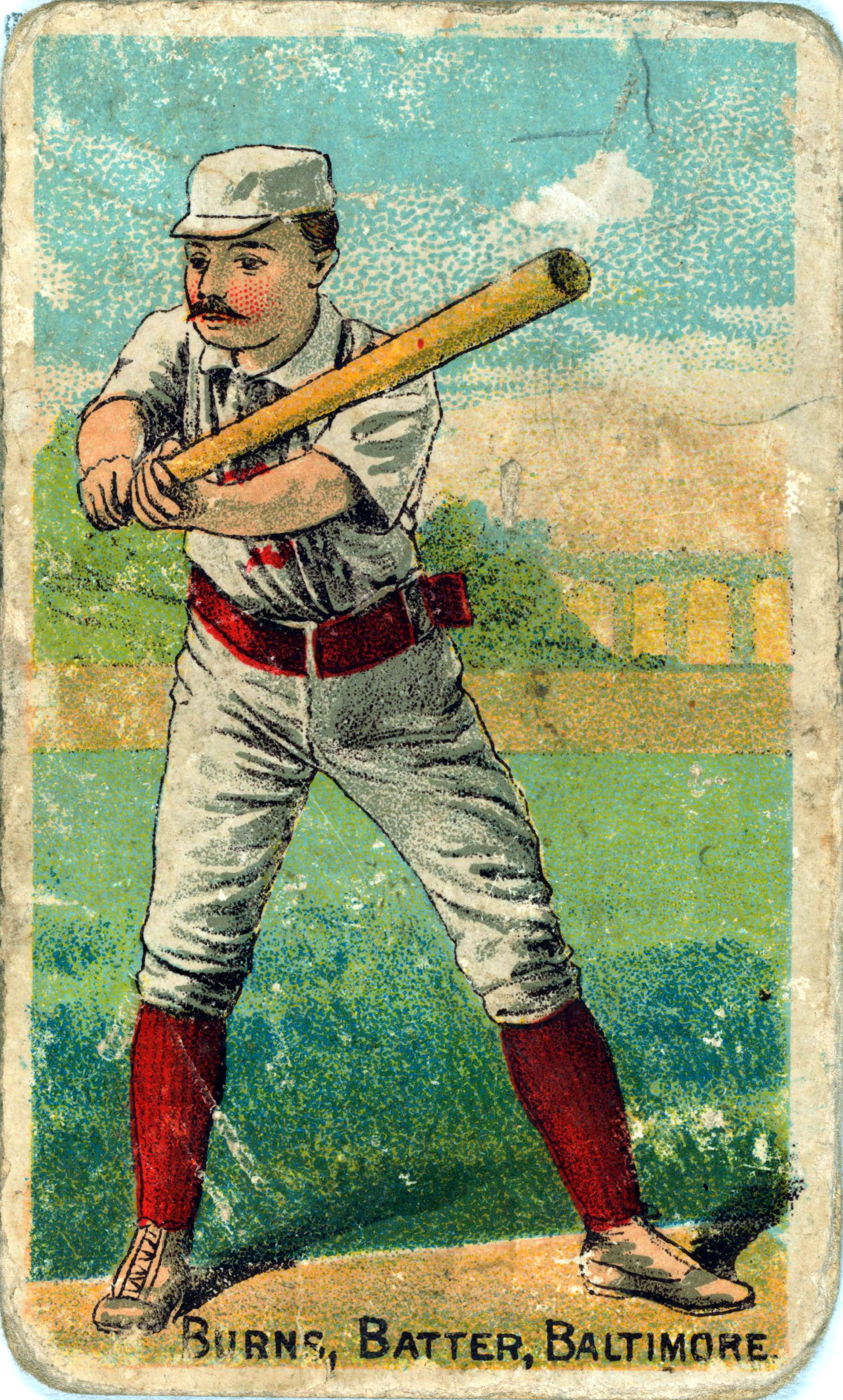 Illustration of Thomas P. "Oyster" Burns (1864-1928), who played professional baseball from 1884 to 1895.